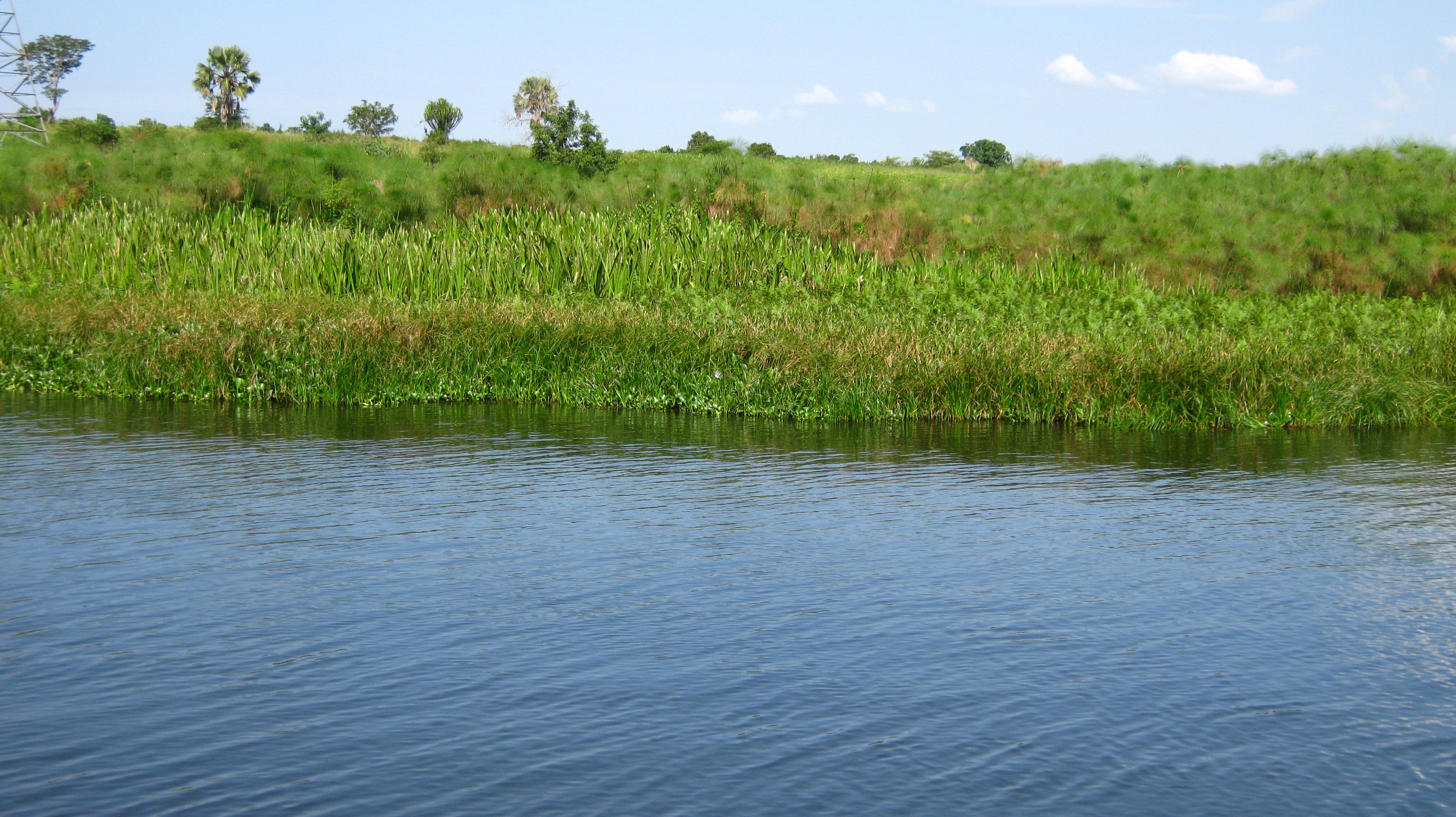 Lake Kyoga, Uganda